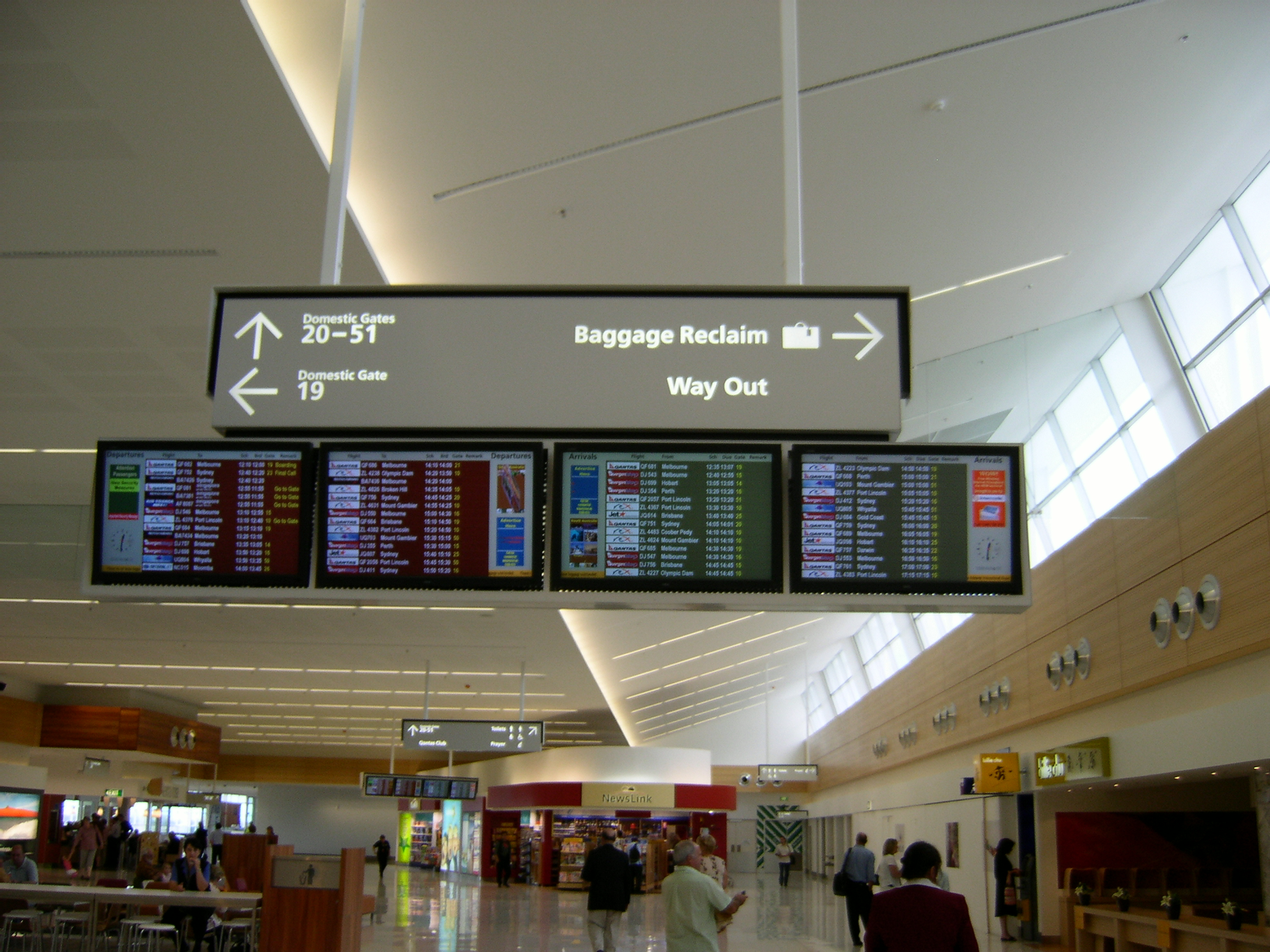 Main Concourse of Departures area looking west at Adelaide Airport Terminal One. Taken 12:30pm, 17 February 2006 with a Sanyo AZ3. Taken by Alex Sims.